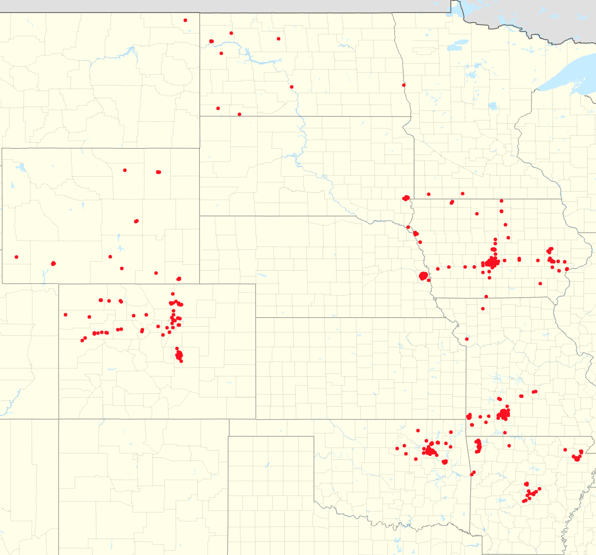 Geographic footprint of Kum & Go's 397 locations as of 2020 July